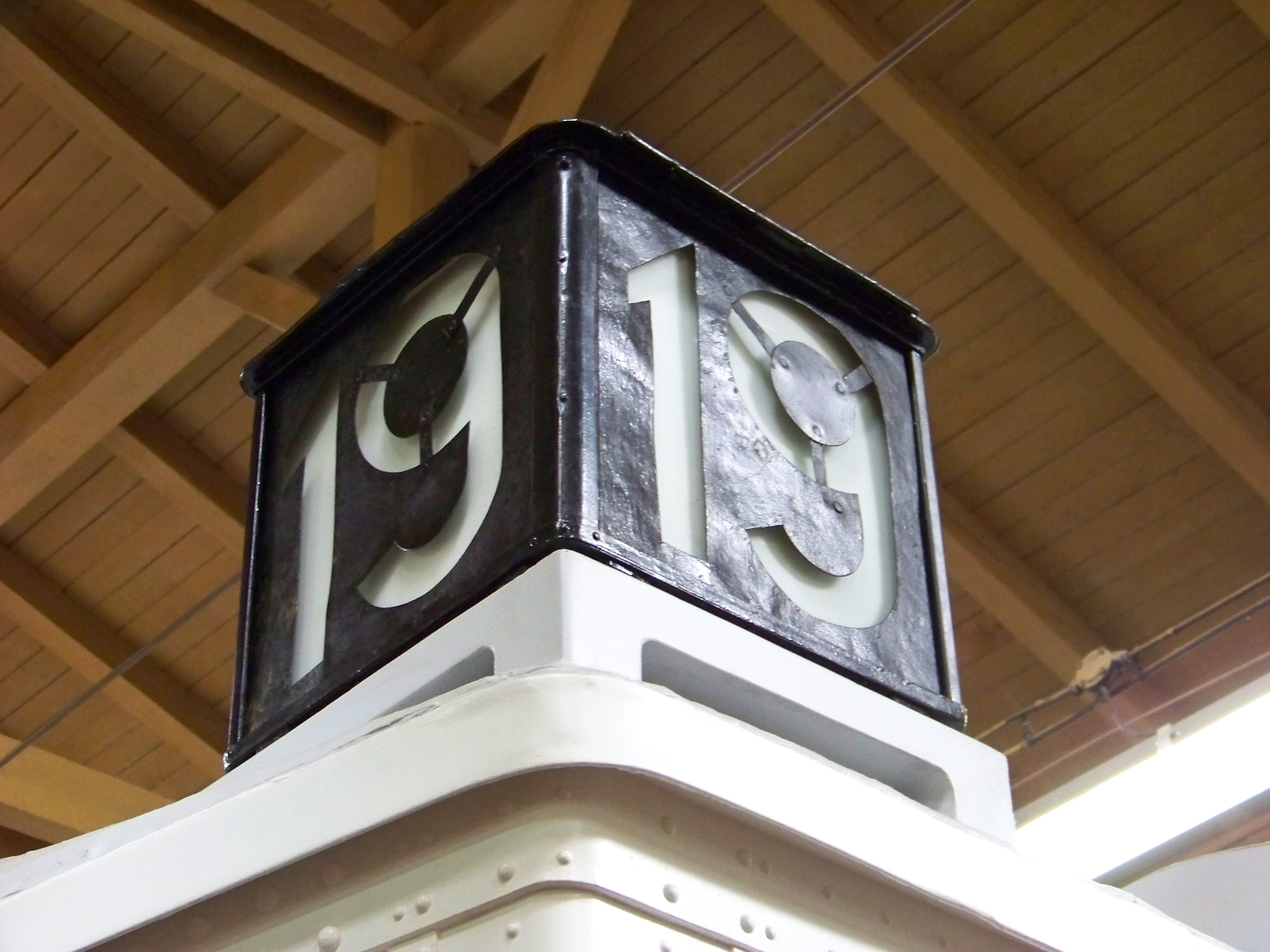 Prague-Střešovice, Czech Republic. Střešovice tram depot, Public Transport Museum. A tram.